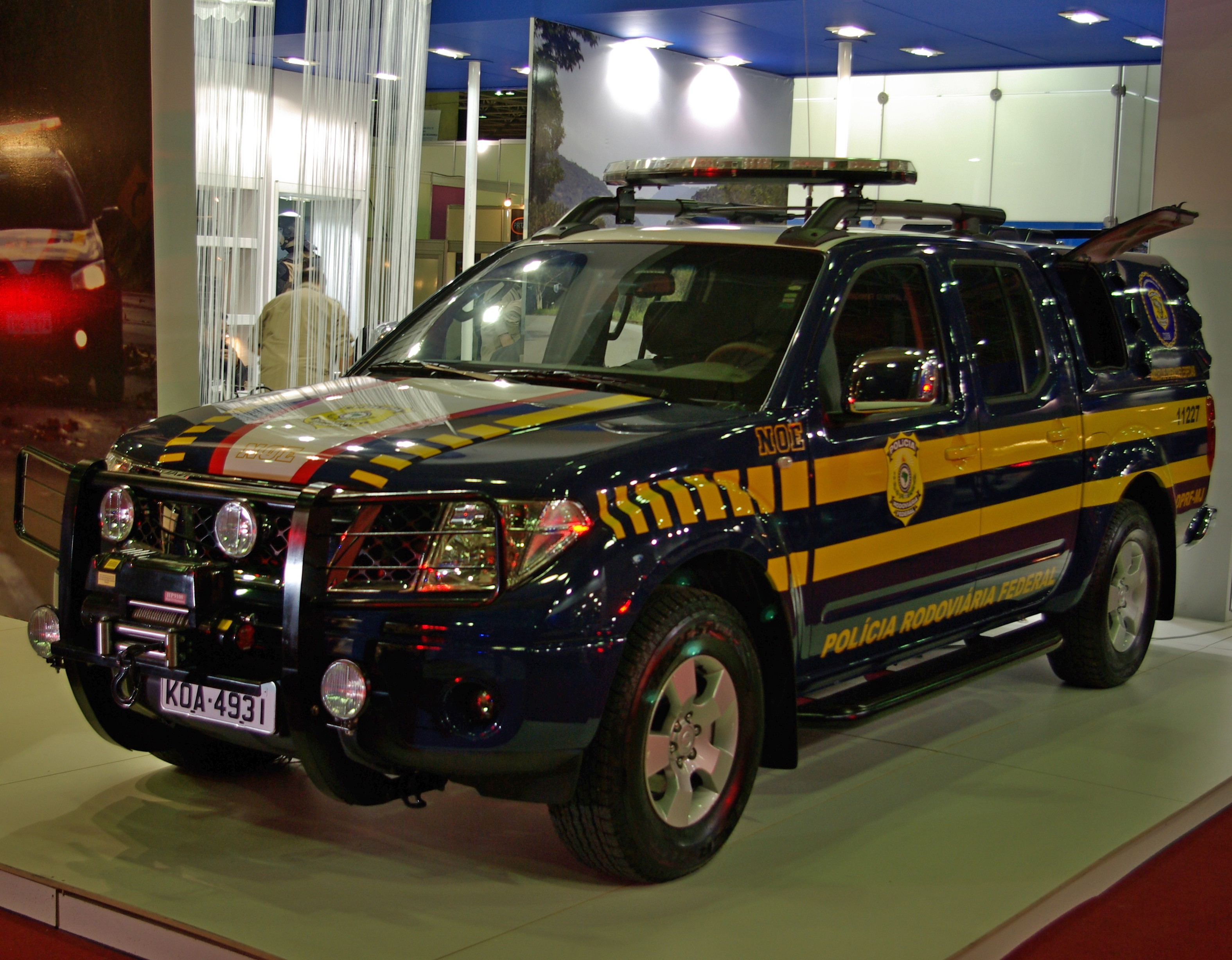 Highway Patrol Police Car - Brazil